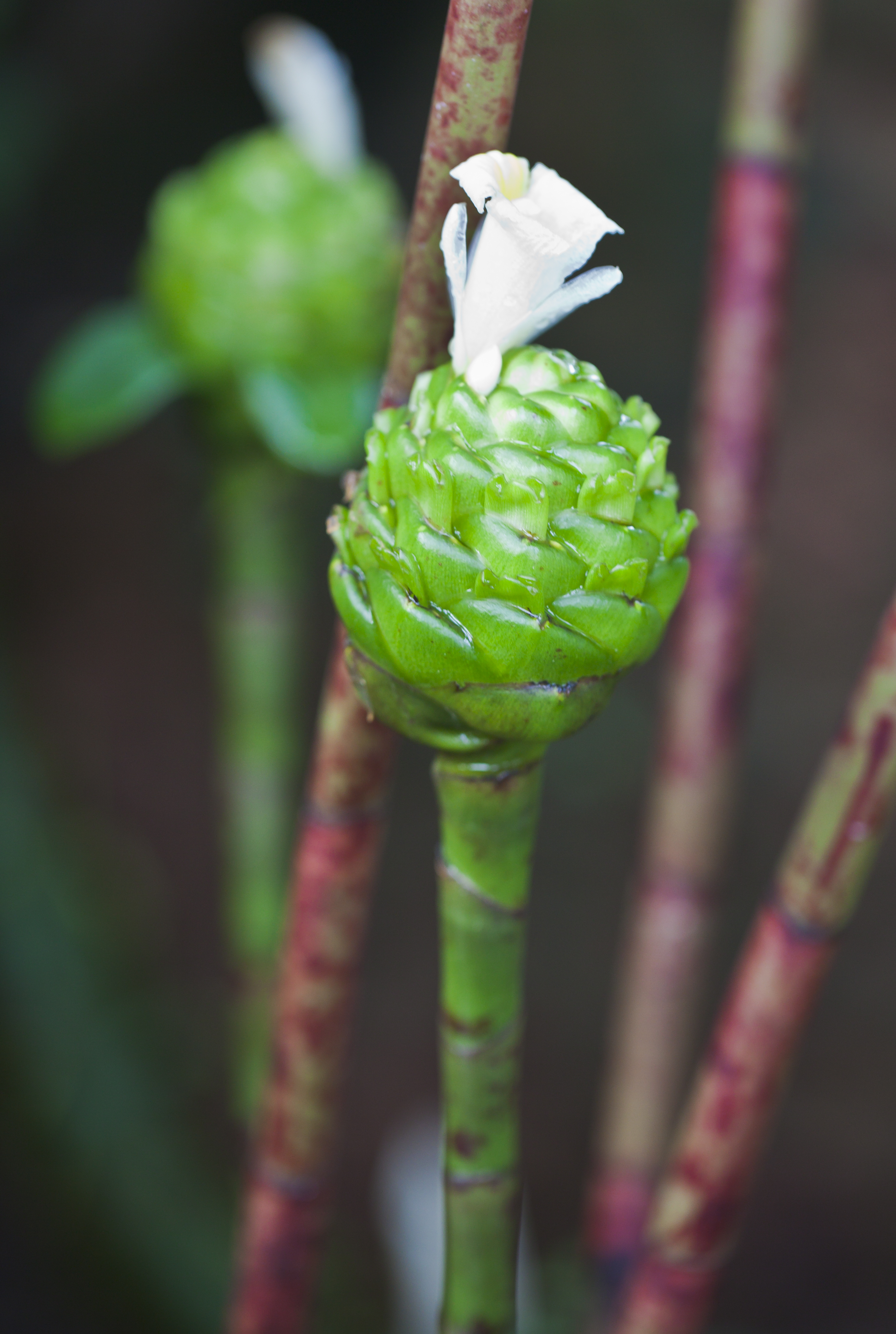 Calathea cylindrica, Jardín Botánico de Múnich, Alemania